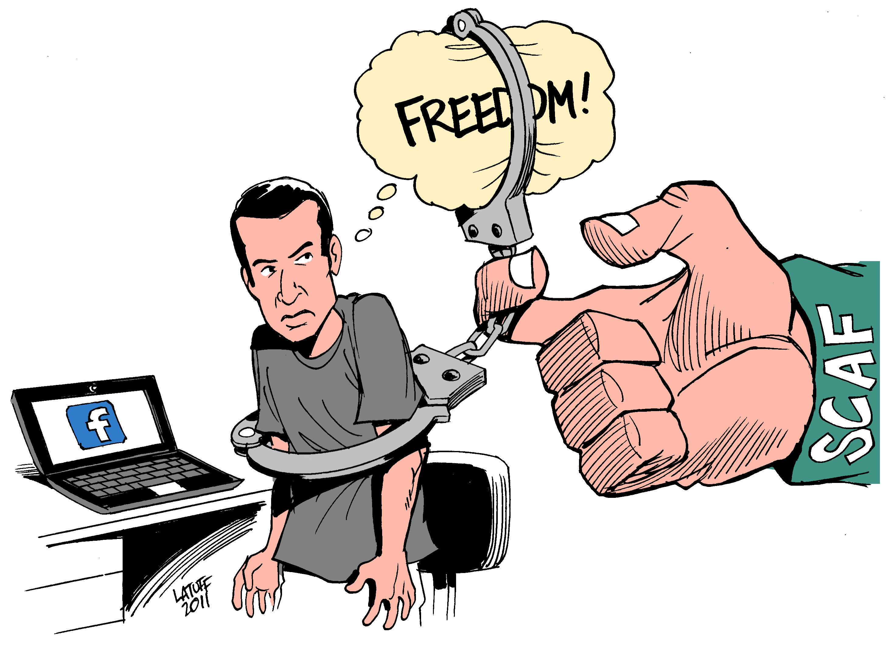 Maikel Nabil Sanad